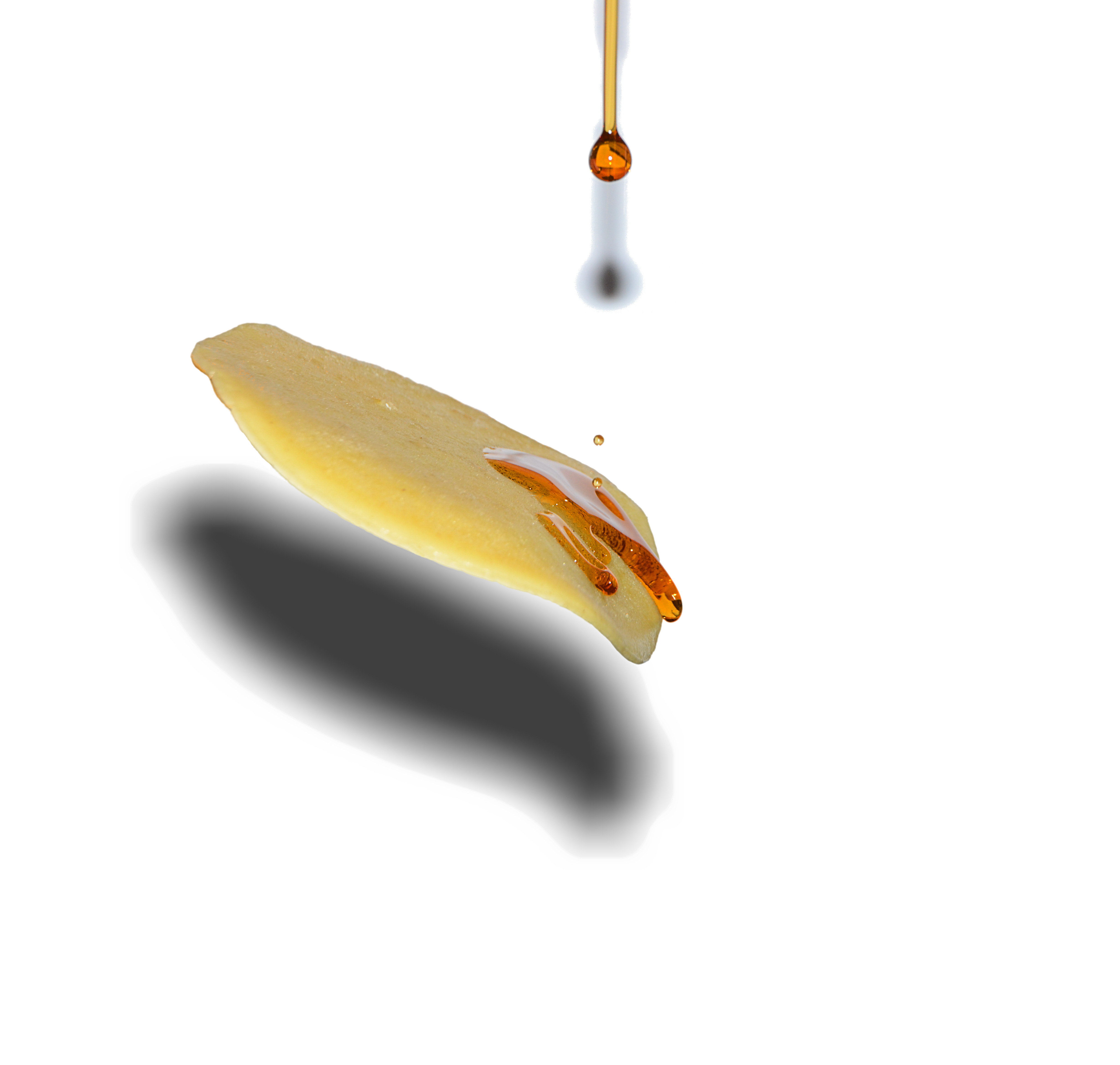 Pancake with maple syrup